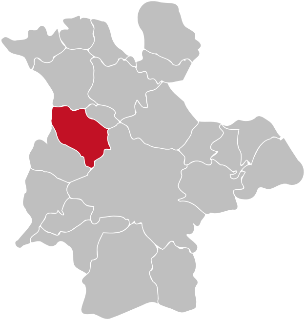 Location of the district Trupbach within Siegen, Germany. Red/Grey colors match the color scheme of Germany maps and information boxes in German Wikipedia. District is highlighted in red.